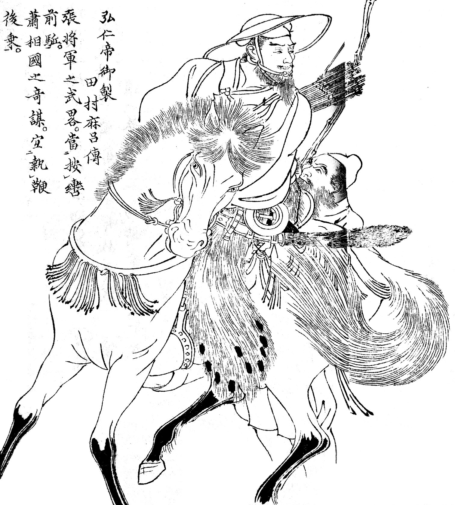 Drawing of Sakanoe Tamuramaro